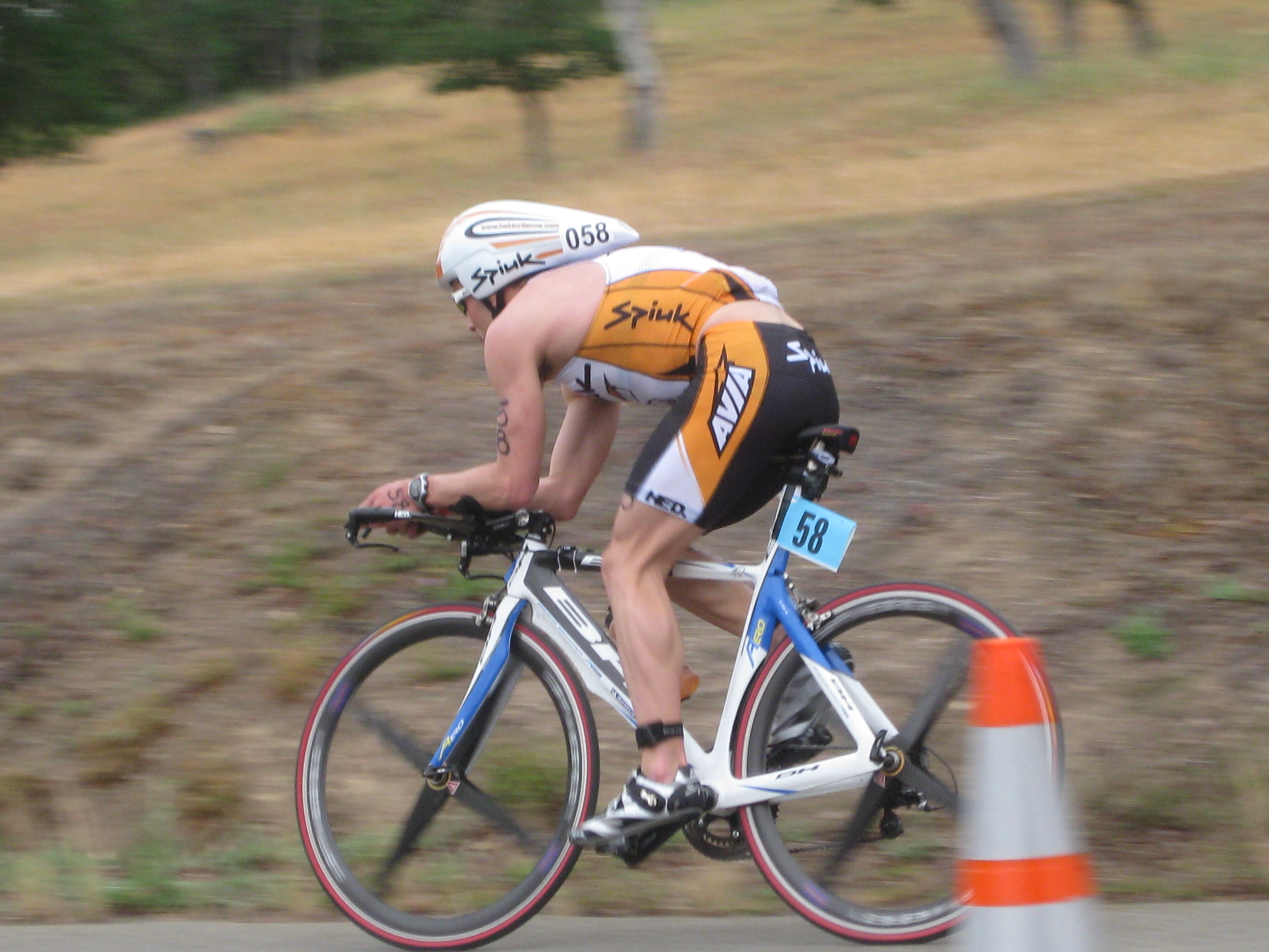 Hektor Llanos Burguera on bike at 2009 Wildflower Triathlon